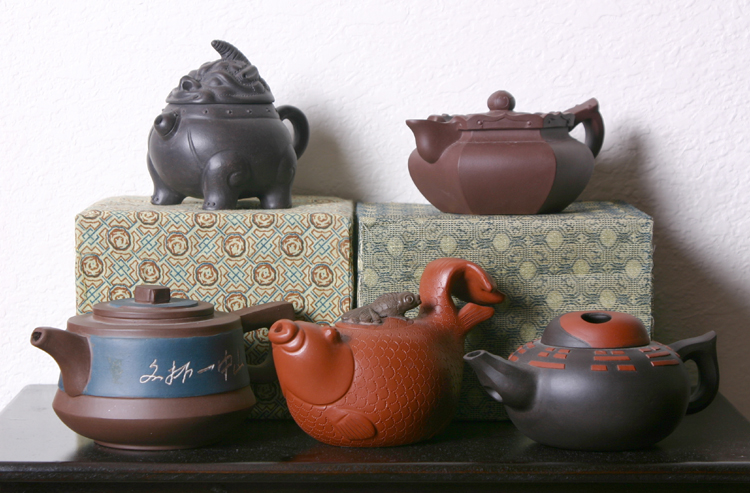 Yixing teapots - showing a variety of styles from formal to whimsical. Photo by Joekoz451 14:26, 15 August 2006 (UTC)